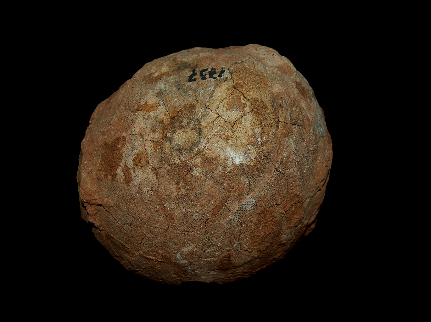 Egg of Telmatosaurus, Deva Natural History Museum.